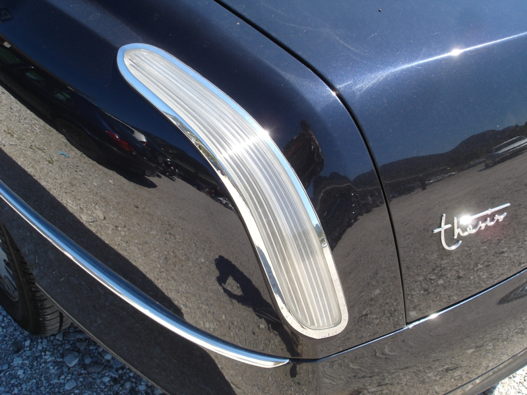 Lancia Thesis at the foothill of Monte Santo di Lussari / Svete Višarje (Italy).